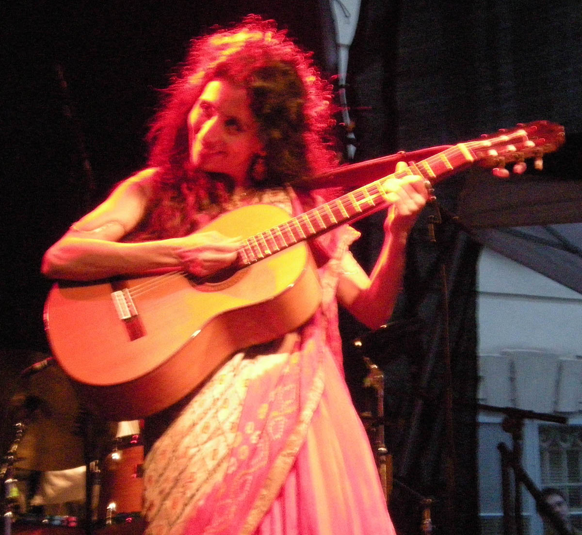 Singer, songwriter and actor Timna Brauer with husband 'Elias Meiri performing at Vienna's 25th annual "Stadtfest".